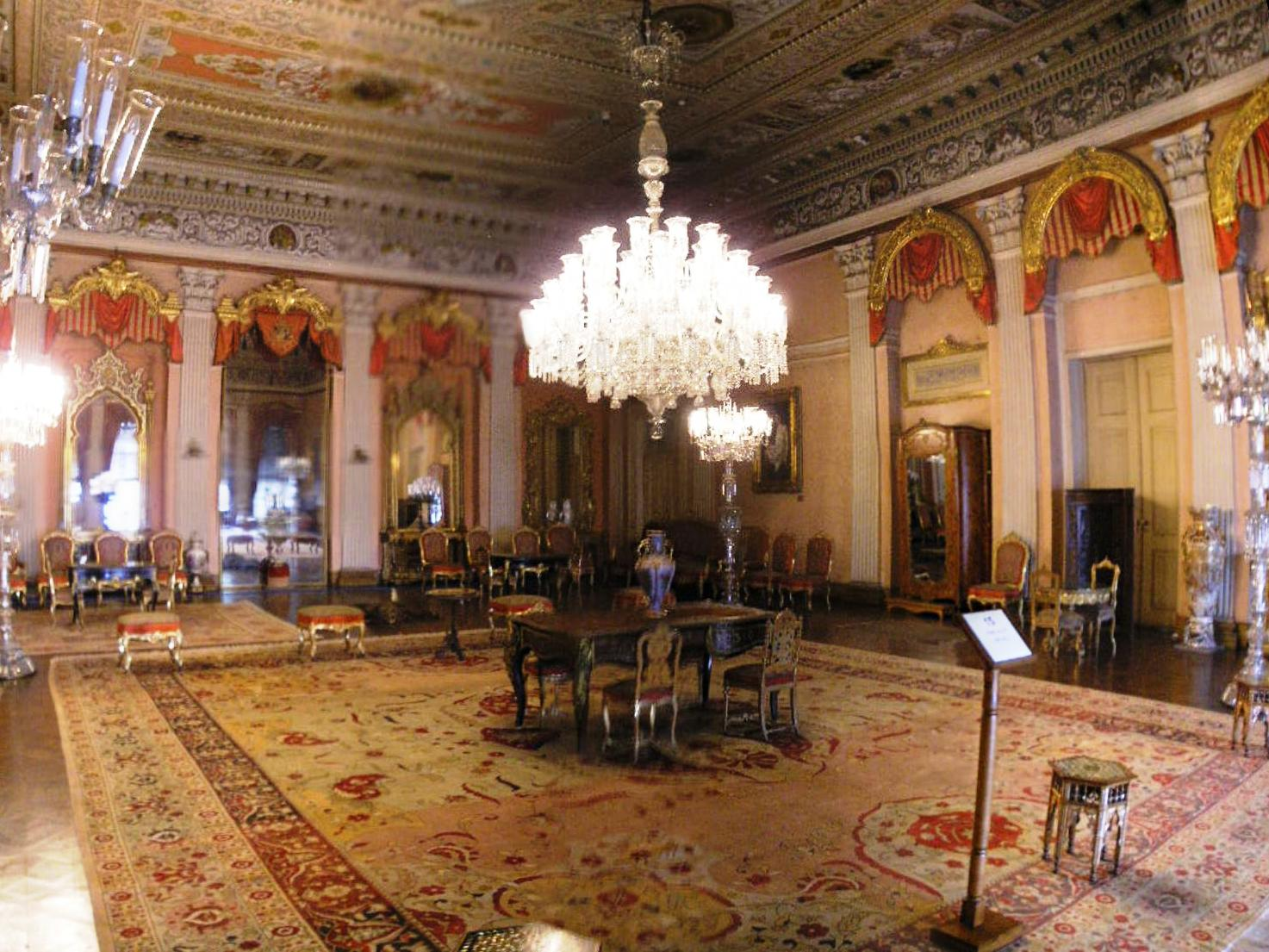 Pink Hall (Pembe Salon) in Dolmabahçe Palace (#15 of the tour)